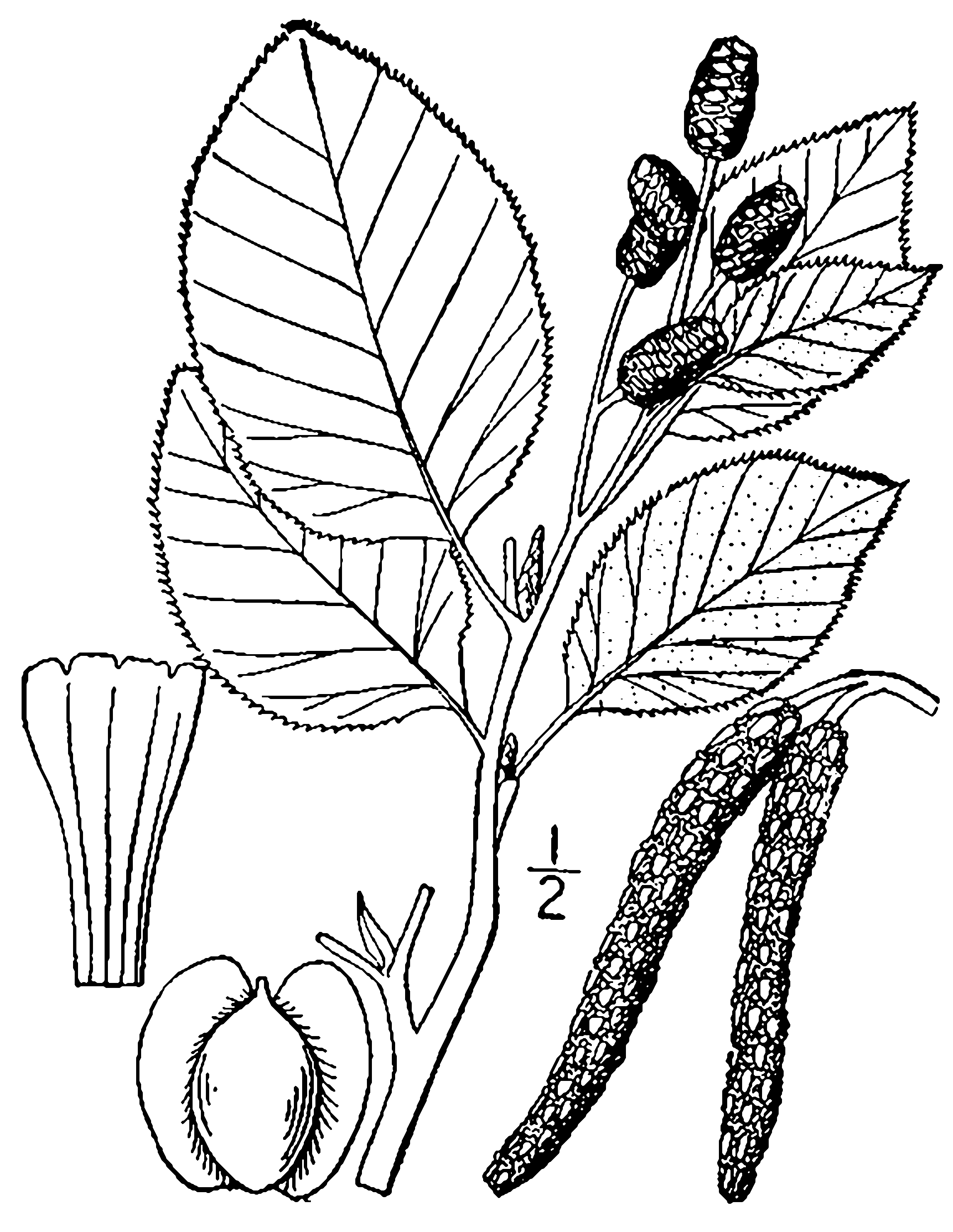 Sitka Alder. Family Betulaceae. Scientific illustration.